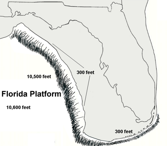 Depiction of Florida Platform based on U. of Florida map.